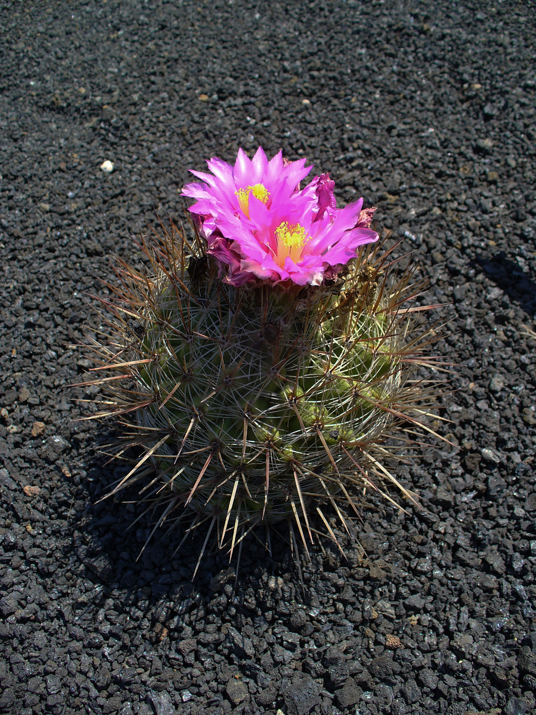 Habitus; Jardin de Cactus, Guatiza, Lanzarote, Canary Islands, Spain. According to the IUCN red list Thelocactus conothelos argenteus is critically endangered, major threat is illegal collecting (see [1]).